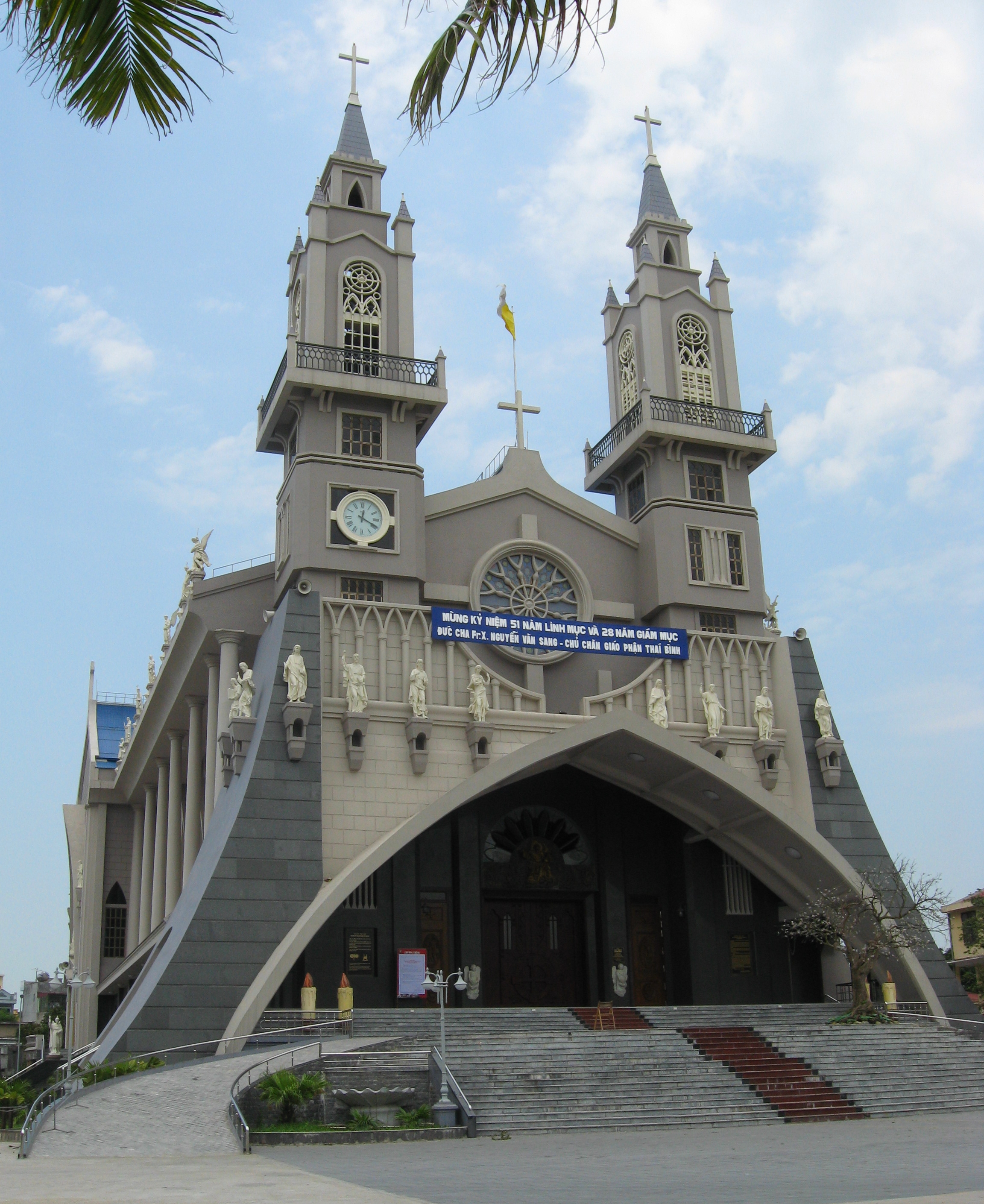 Thai Binh Cathedral